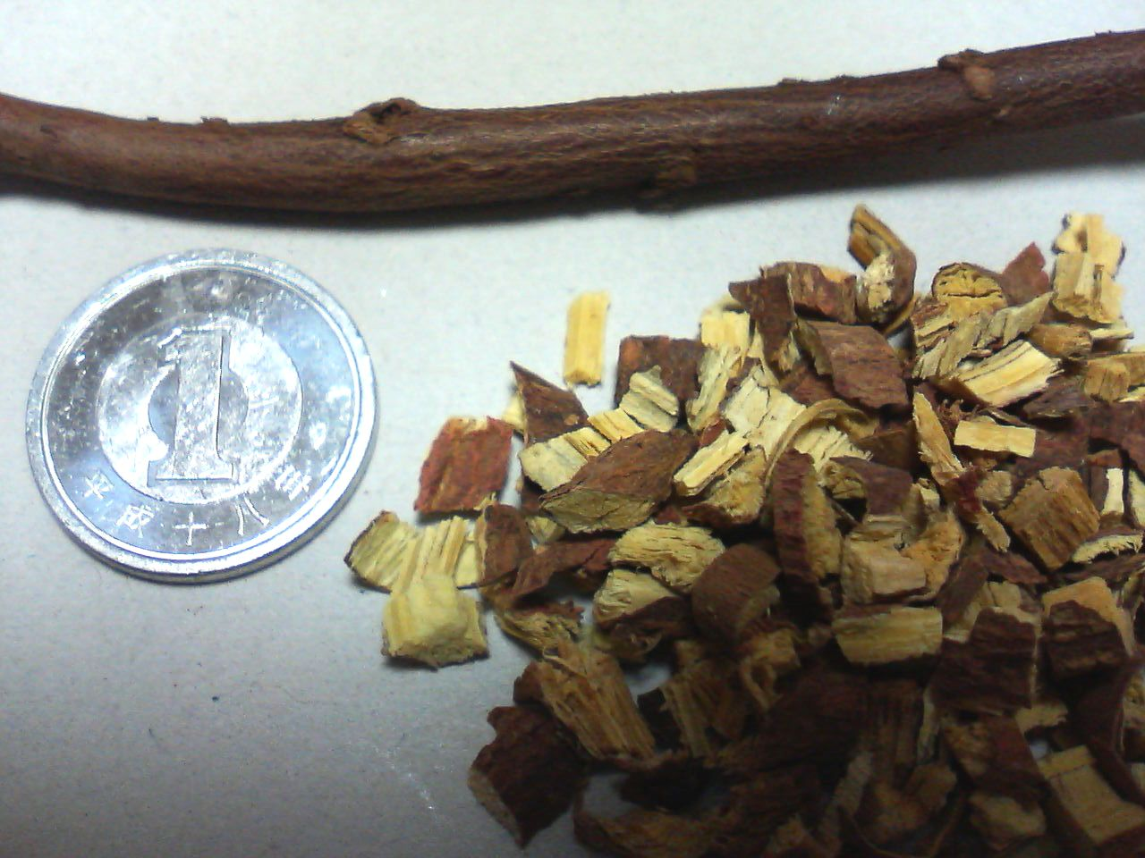 Stolon of Glycyrrhiza uralensis